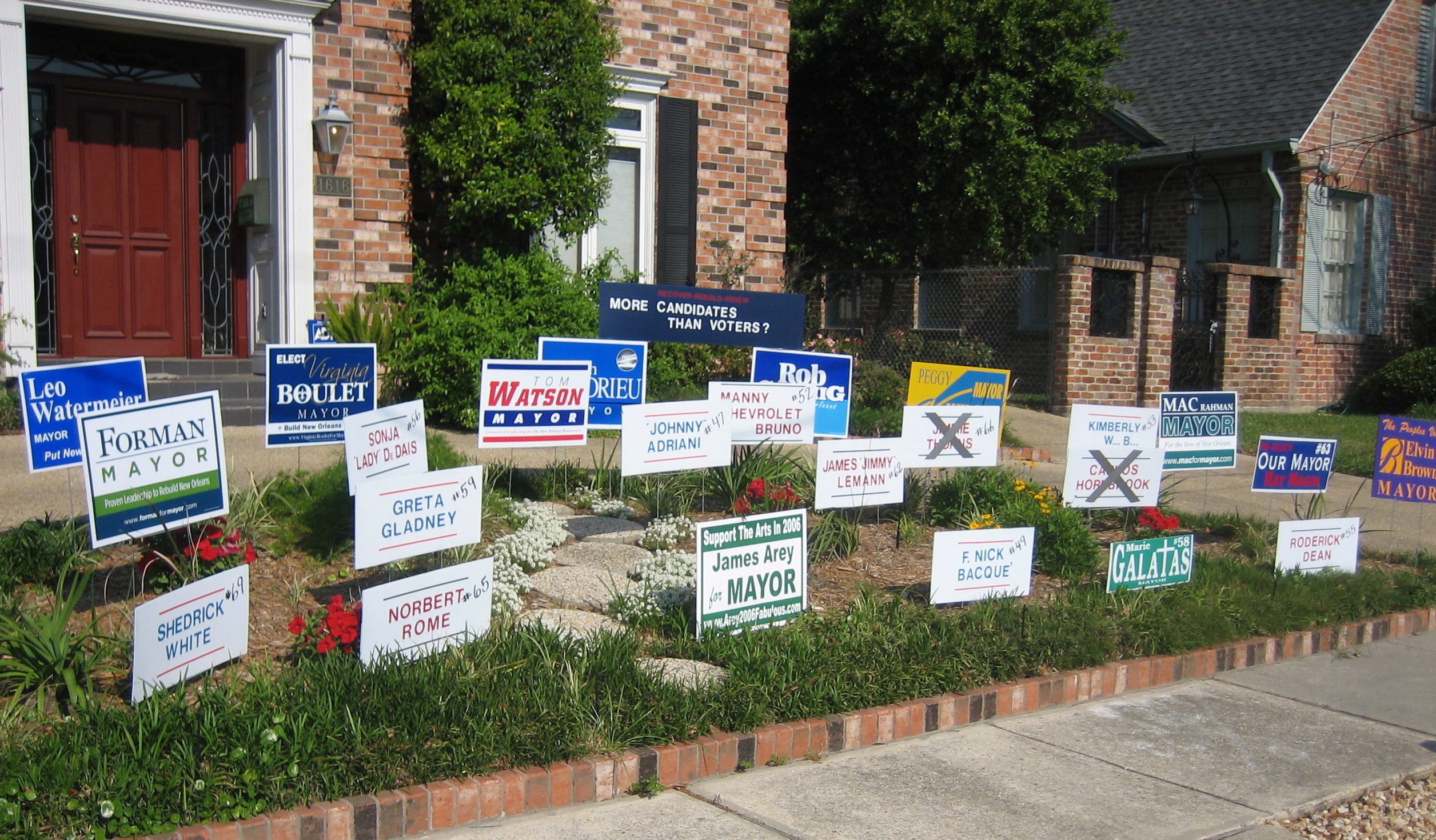 House on Jefferson Avenue in Uptown New Orleans has an array of signs for the unprecendentedly numerous candidates in the post-Hurricane Katrina mayor election, together with the satrical or humorous comment "More Candidates Than Voters?" Photo by Infrogmation, April 2006